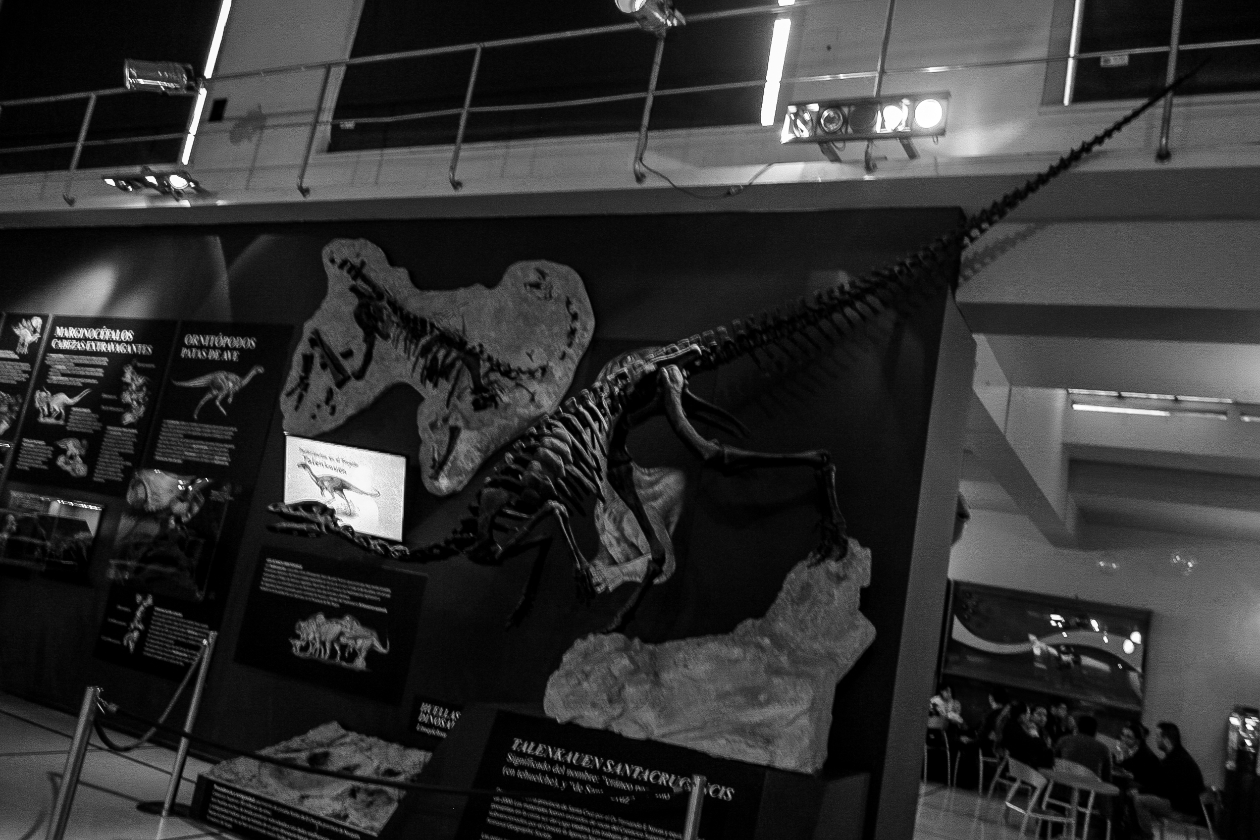 Talenkauen skeleton